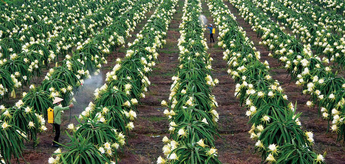 Dragon fruit farming in Chau Thanh District, Long An Province